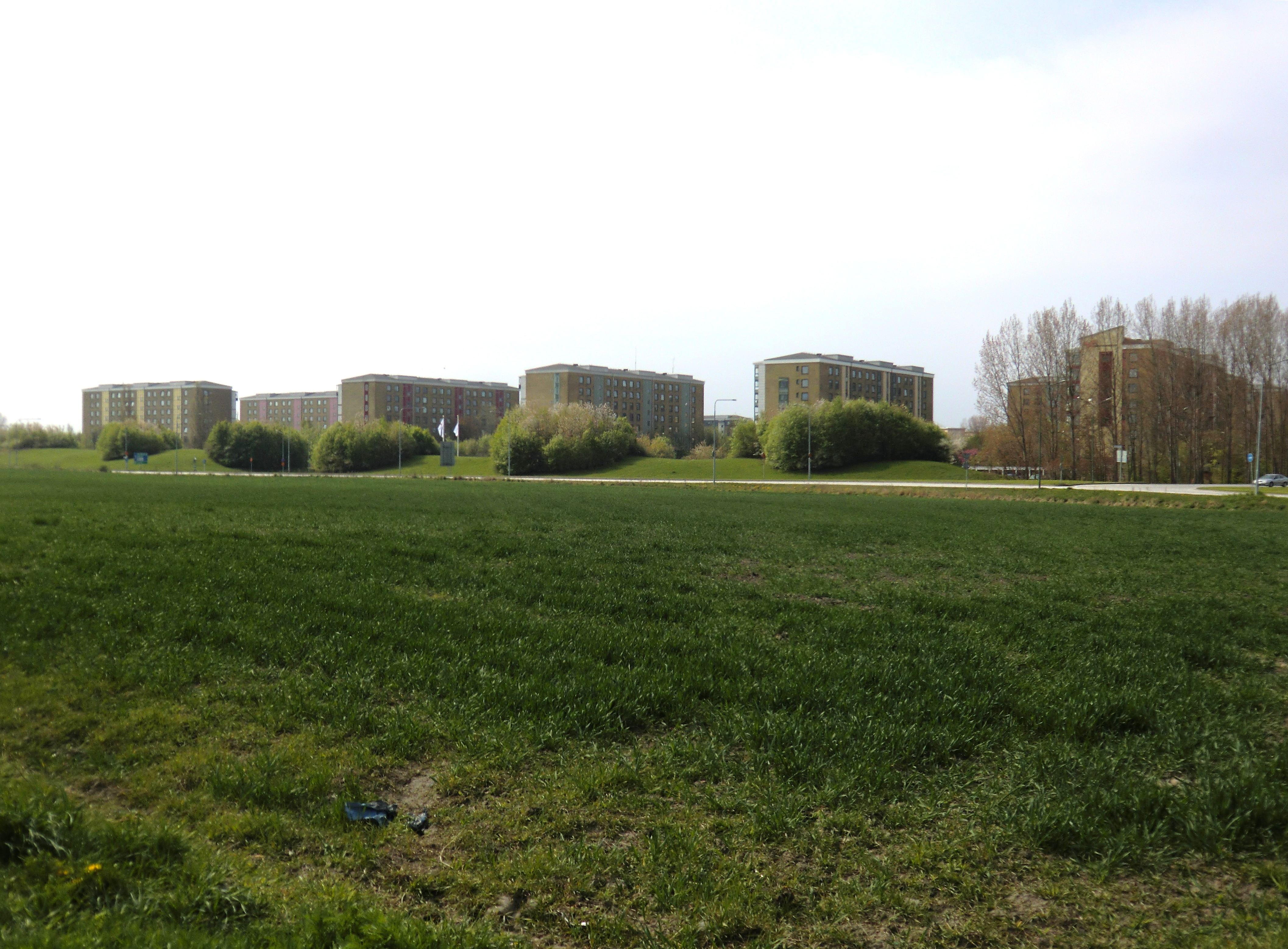 Svenshög apartment block, Arlöv, Burlöv Municipality, Sweden.